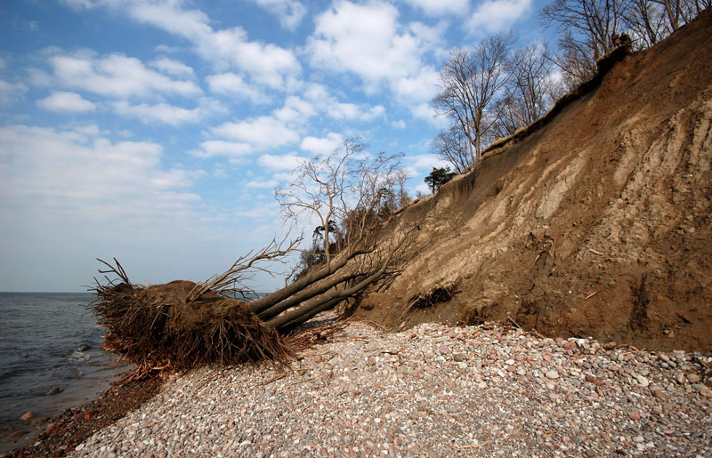 The Dutchman's hat (Olando Kepure) - the highest scarp on the Lithuanian seaside.